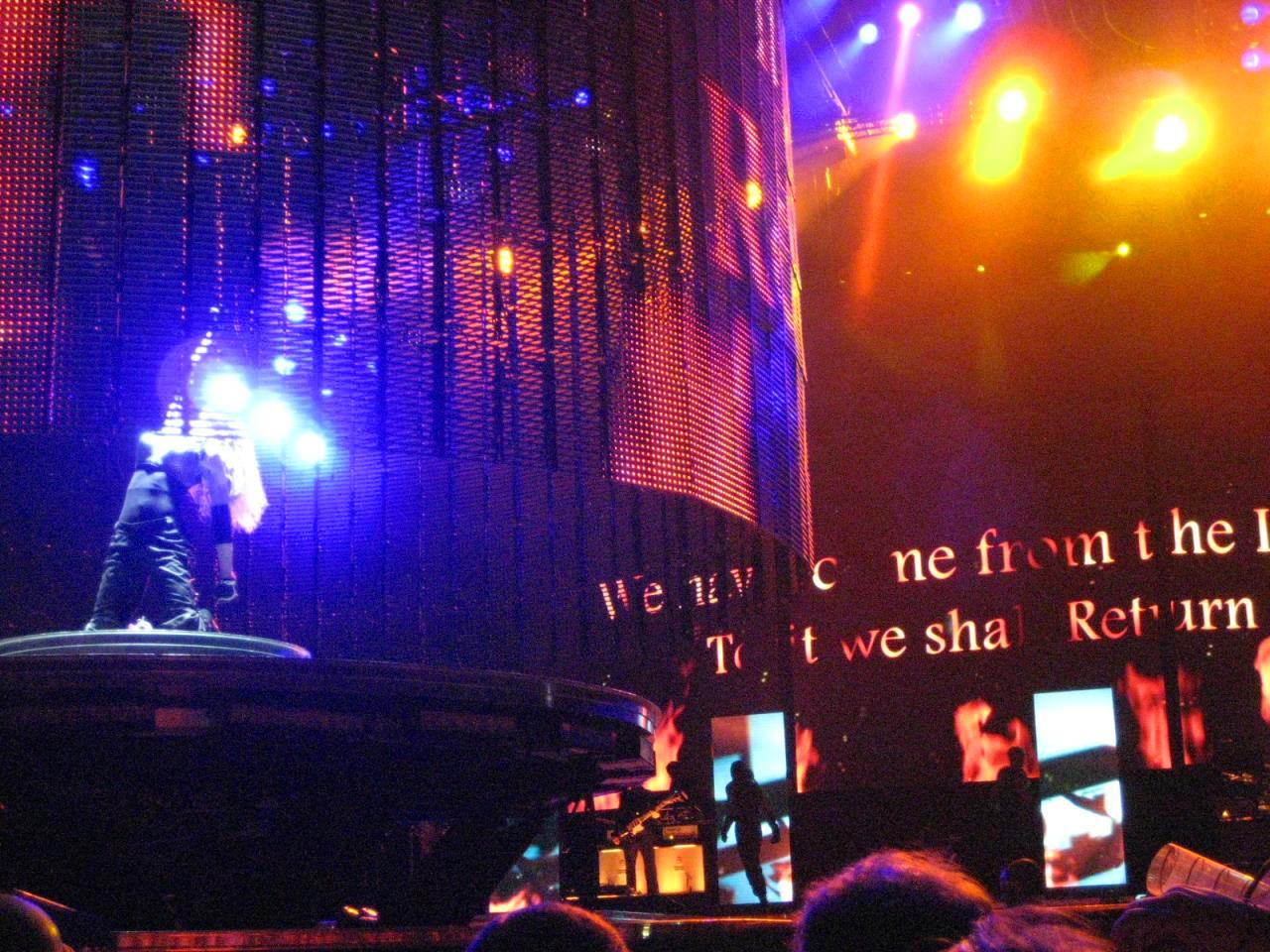 Madonna beginning the performance of "Frozen" as a giant screen covers her at the Sticky & Sweet Tour at Tel Aviv, Israel.